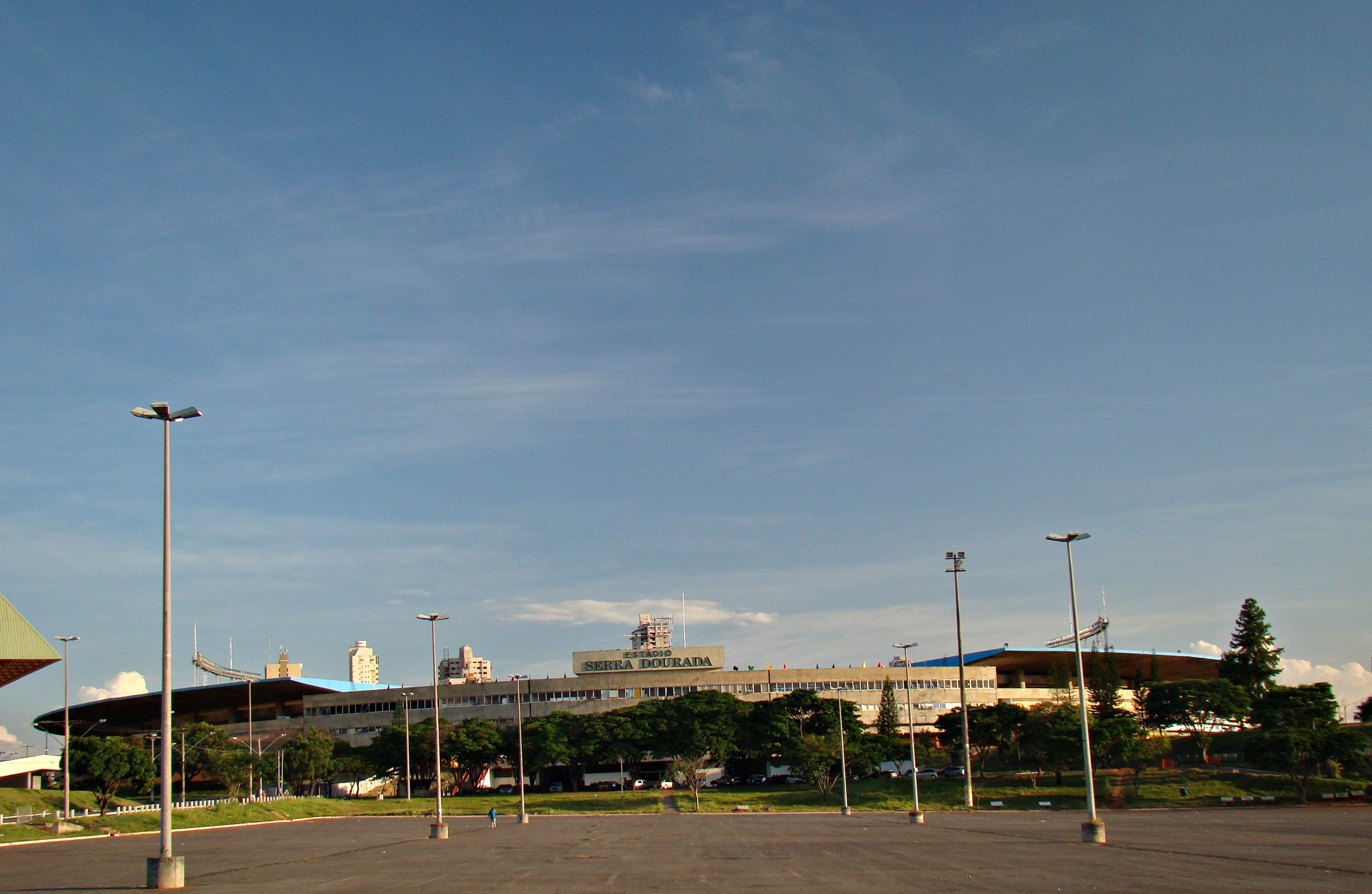 Serra Dourada football stadium in Goiânia, Goiás, Brazil